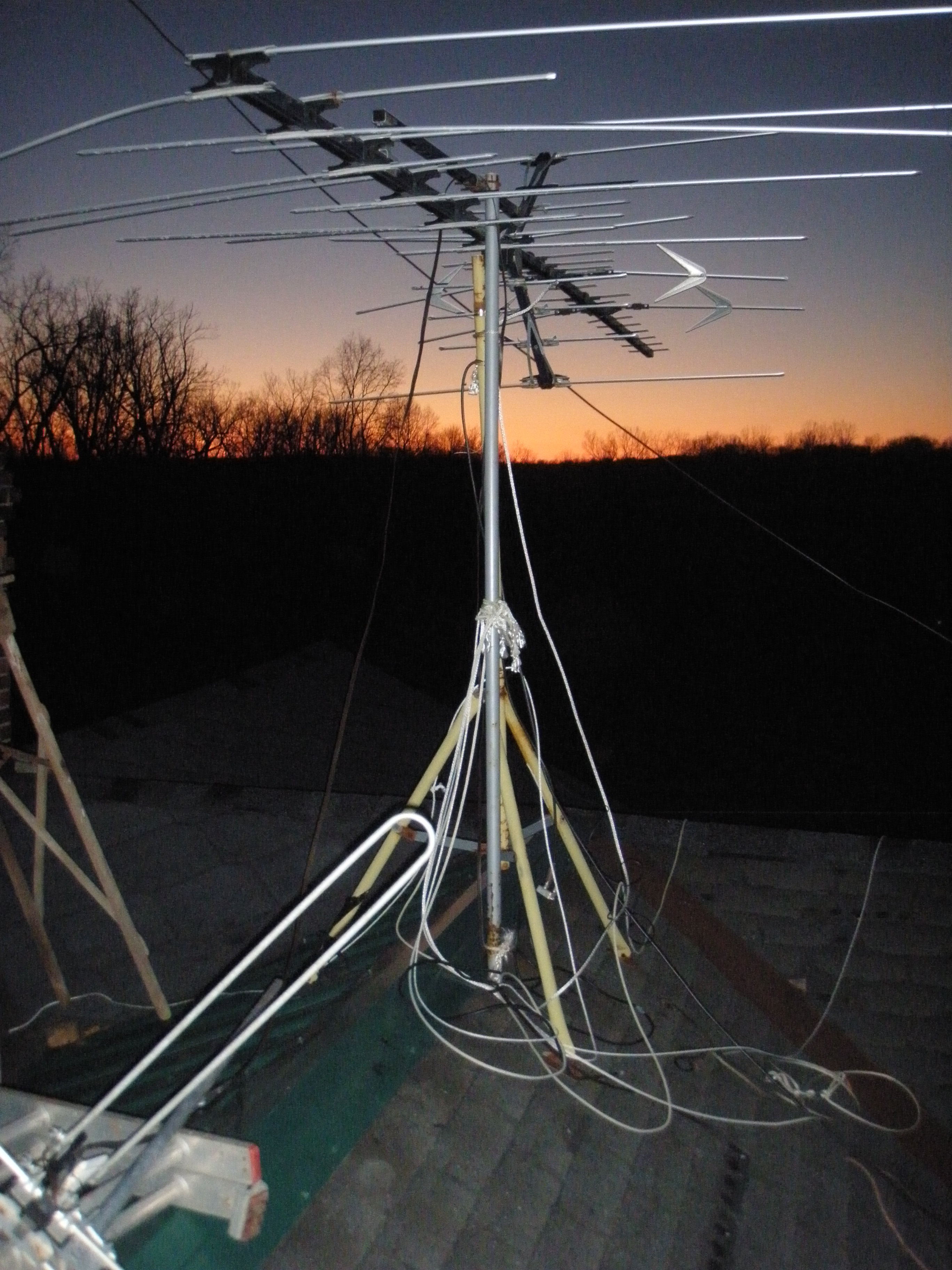 A tripod for a television antenna